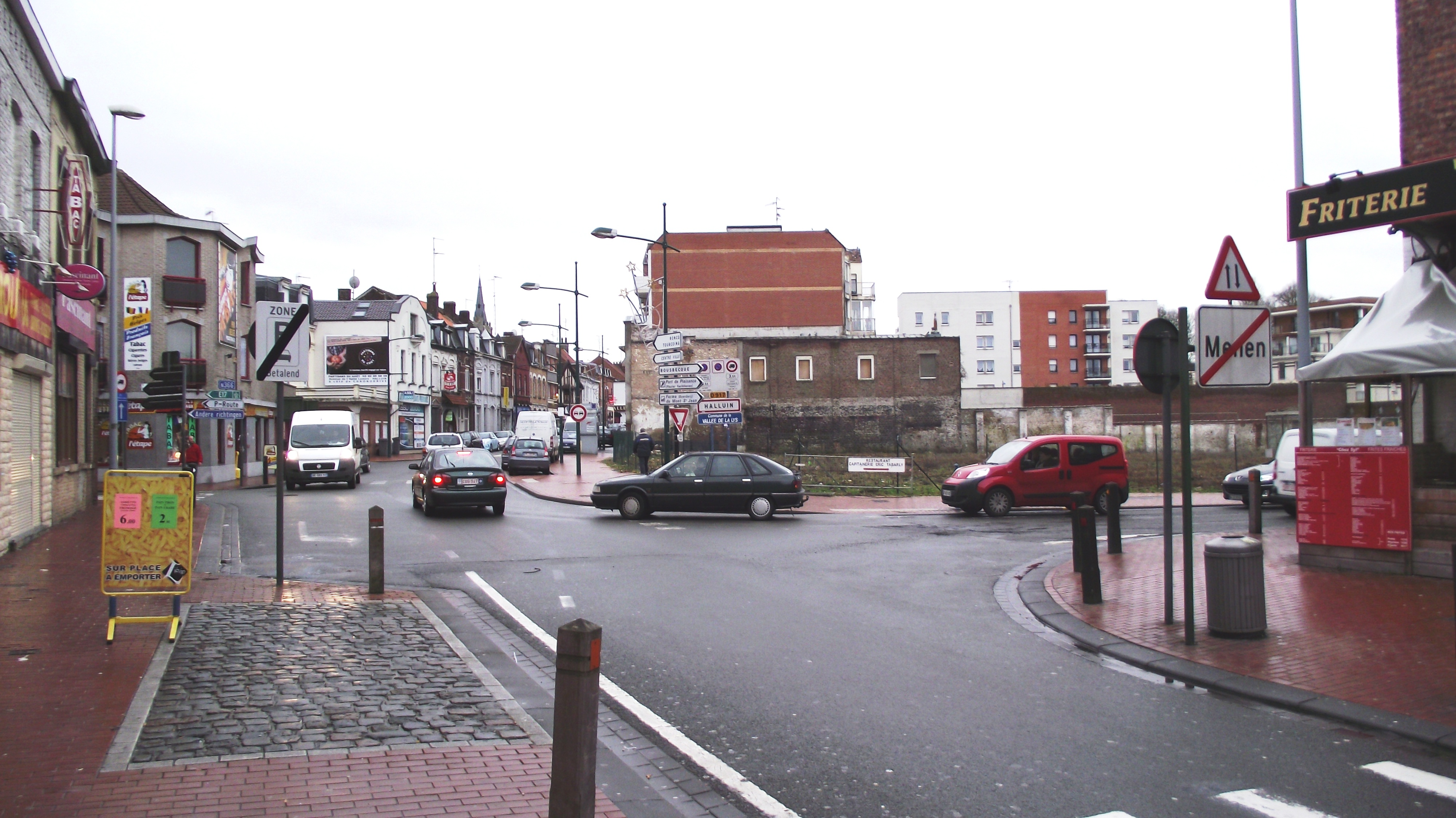 Border between France and Belgium in the border towns of Halluin (France) and Menen (Belgium). View from the Belgian side. The empty right corner of the crossing is French (The buildings have been demolished in 2010, zie GE). Beyond the white building (behind white van) on the second crossing is also French. Language on signs is strictly dependent on where the sign is situated.